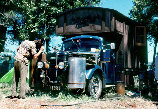 Image (photograph) taken by Official Nambassa Photographer and uploaded by User:Mombas, Nambassa dot com Terms of Use: 1/ All users of this image are required to attribute this work to "Nambassa Trust and Peter Terry" and the URL: " " is to accompany all use. 2/ Attribution. You must attribute the work in the manner specified by the author or licensor. 3/ For any reuse or distribution, you must make clear to others the license terms of this work. Statement by Nambassa Trust and Peter Terry